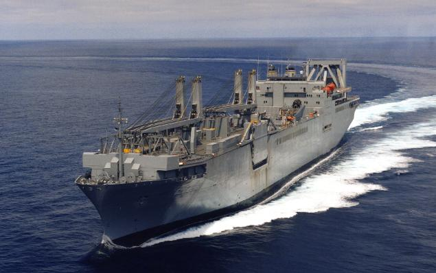 United States Navy Large, Medium-speed, Roll-on/Roll-off Ship: Shughart T-AKR 295 U.S. Navy Photo Contents 1 Copyright status 2 Source of image 3 Licensing 4 Original upload log Copyright status Public domain: U.S. Navy. Source of image Taken on January 14, 2004 from [1]: Ships of the United States Navy